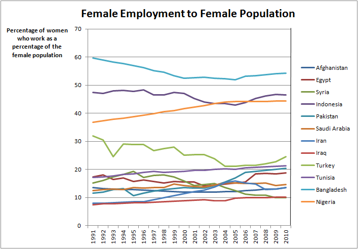 Graph showing the female employment as a percentage of the female population in 11 majority Muslim countries based on data from the International Labor Organization